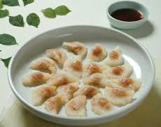 Eomandu